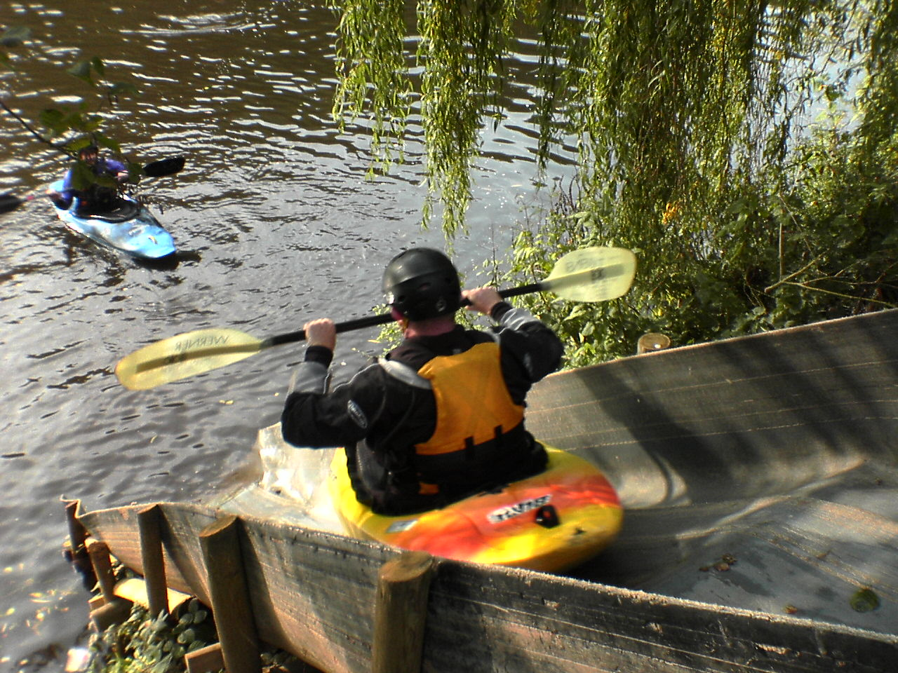 Jamsta 21:10, 13 November 2006 (UTC)